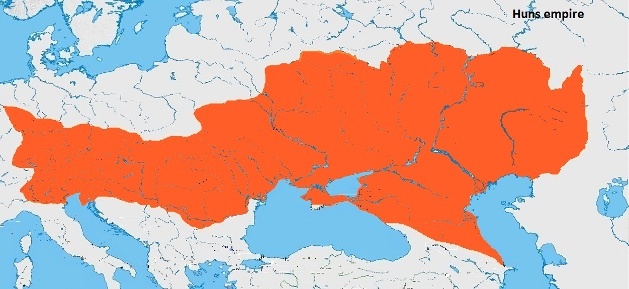 Huns khaganate